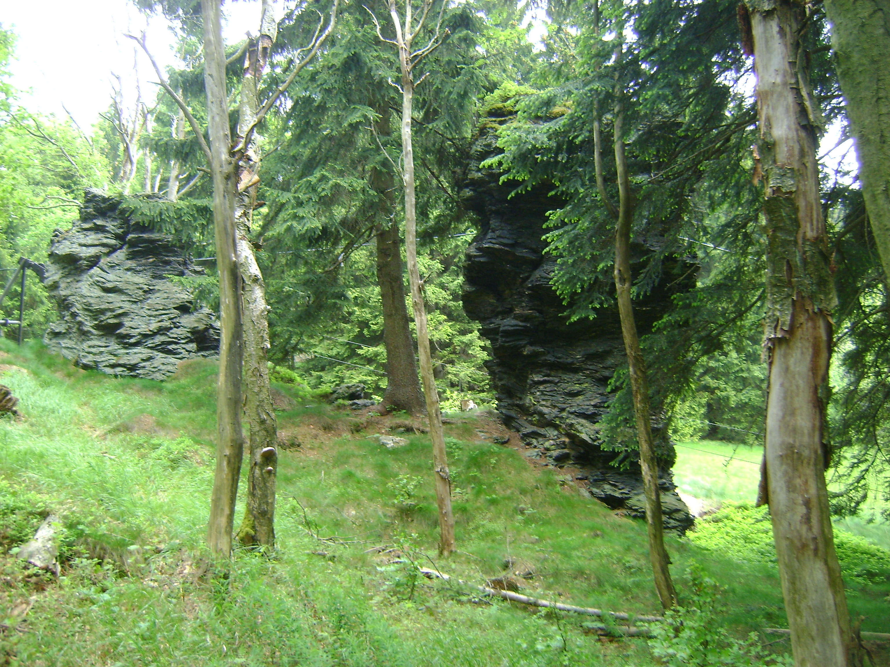 Rocks on the northwest slope in the dorsal part of the Hill Hejlov forming a comb.